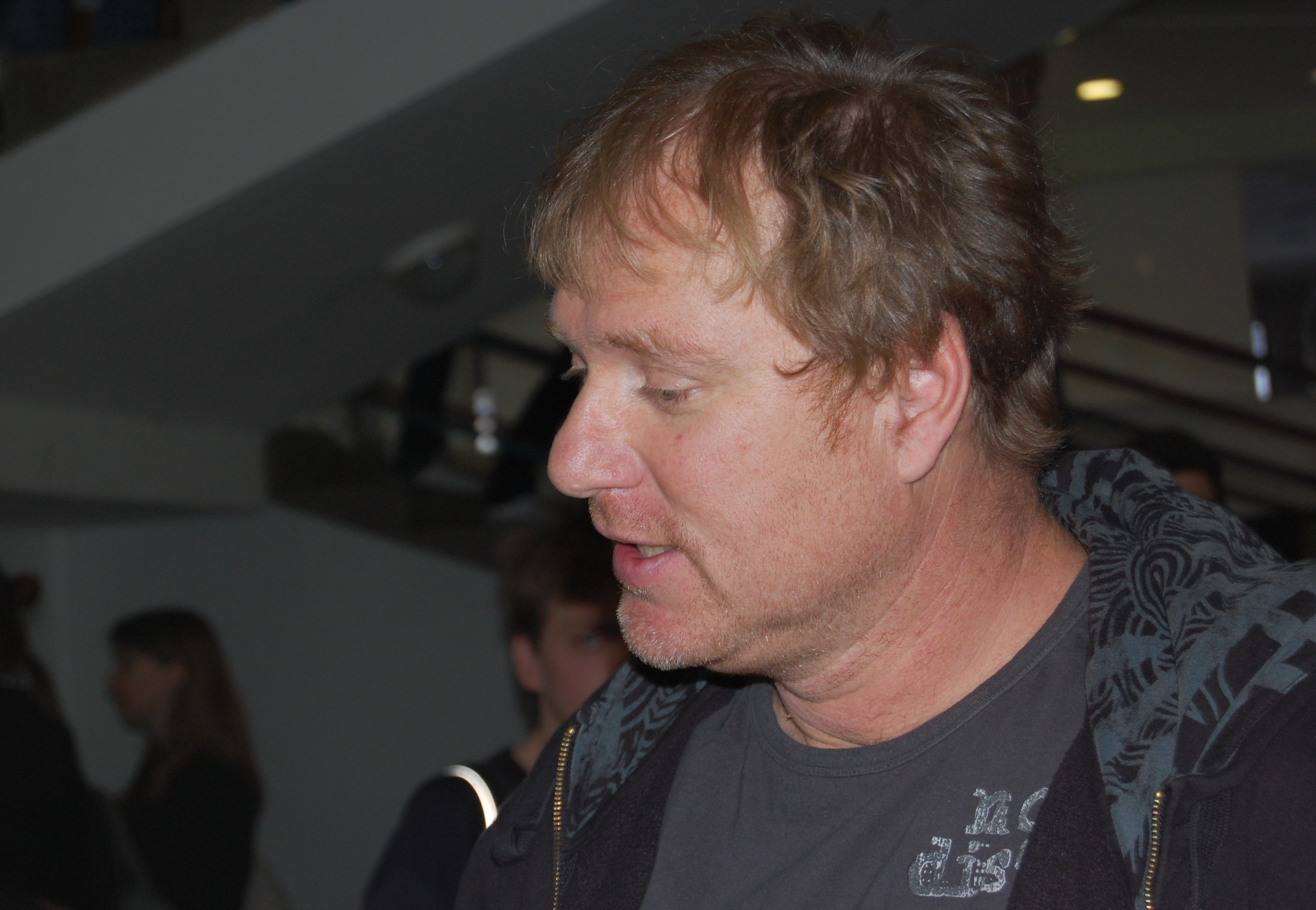 Sašo Hribar, Slovenian humorist, during Kulturni multipraktik event on Bežigrad Grammar School